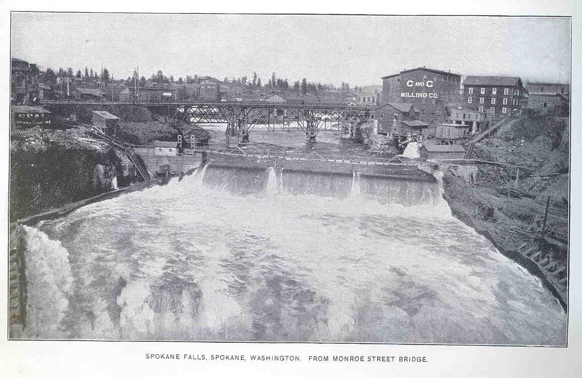 Spokane Falls, Spokane, Washington . From Monroe Street Bridge Subject: Waterfalls, Spokane Falls (Spokane River) Geographic Subject: United States--Washington (State)--Spokane Tag: Limnology